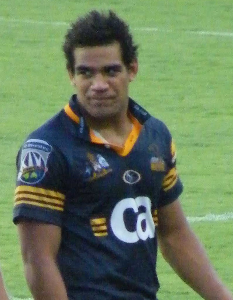 Afusipa Taumpoepeau of the Brumby Runners.